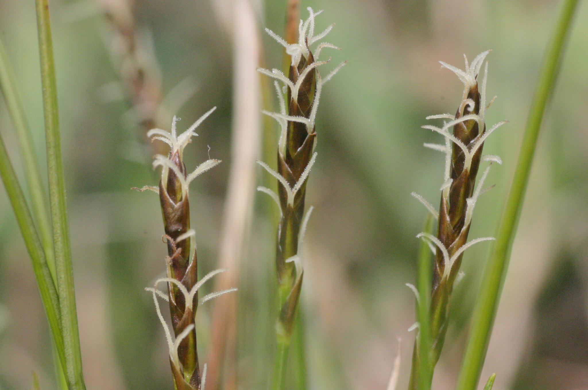 Carex davalliana